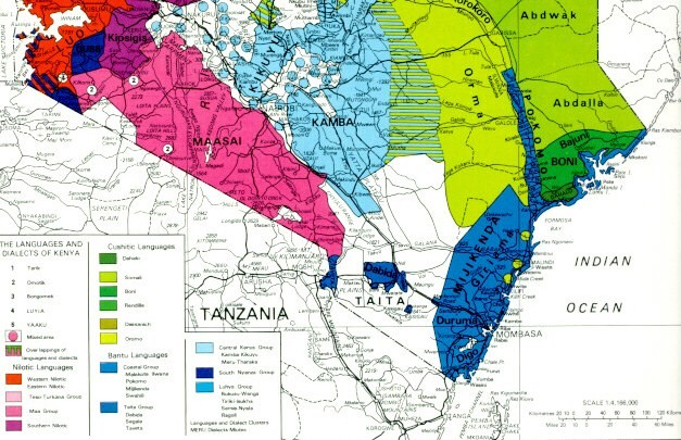 Areas where Maasai language Maa is used in Kenya